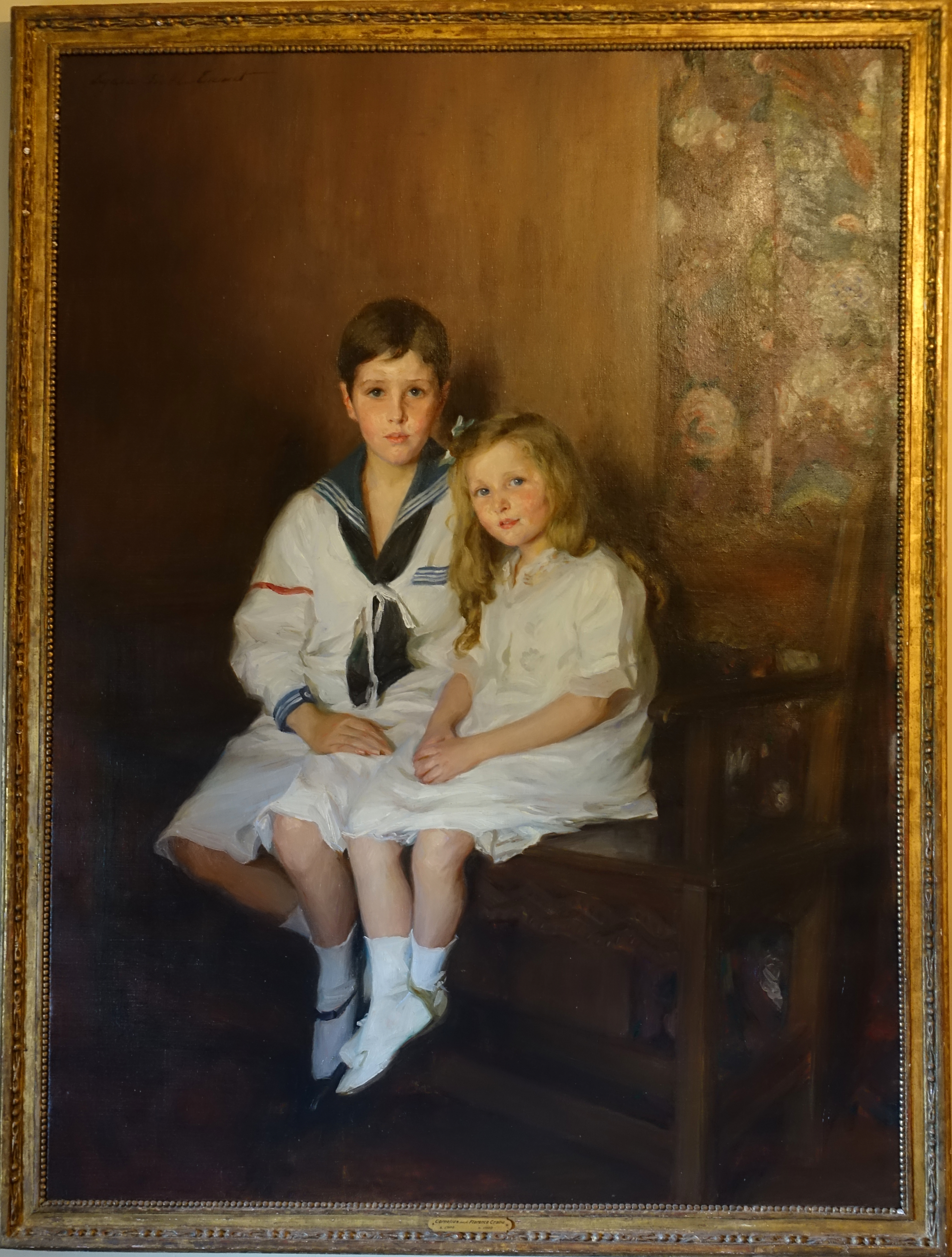 Object in the Great House - Castle Hill on the Crane Estate - Ipswich, Massachusetts, USA.